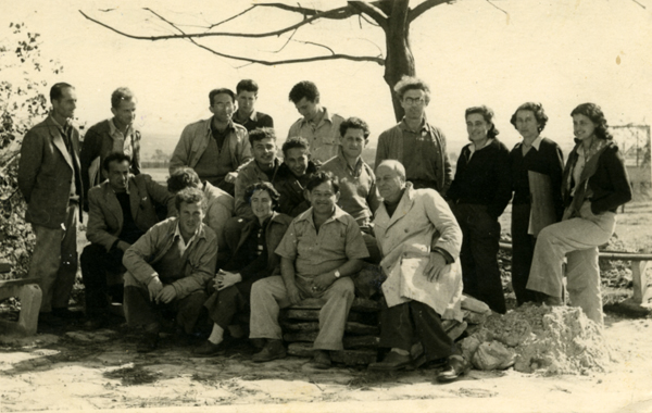 Photograph